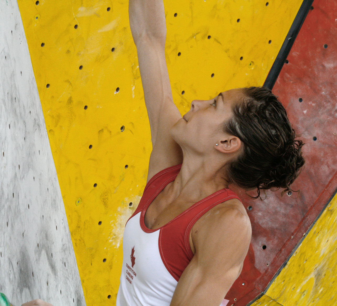 Thirza Carpenter during the semi-finals at the IFSC Boulder Worldcup Vienna 2010.